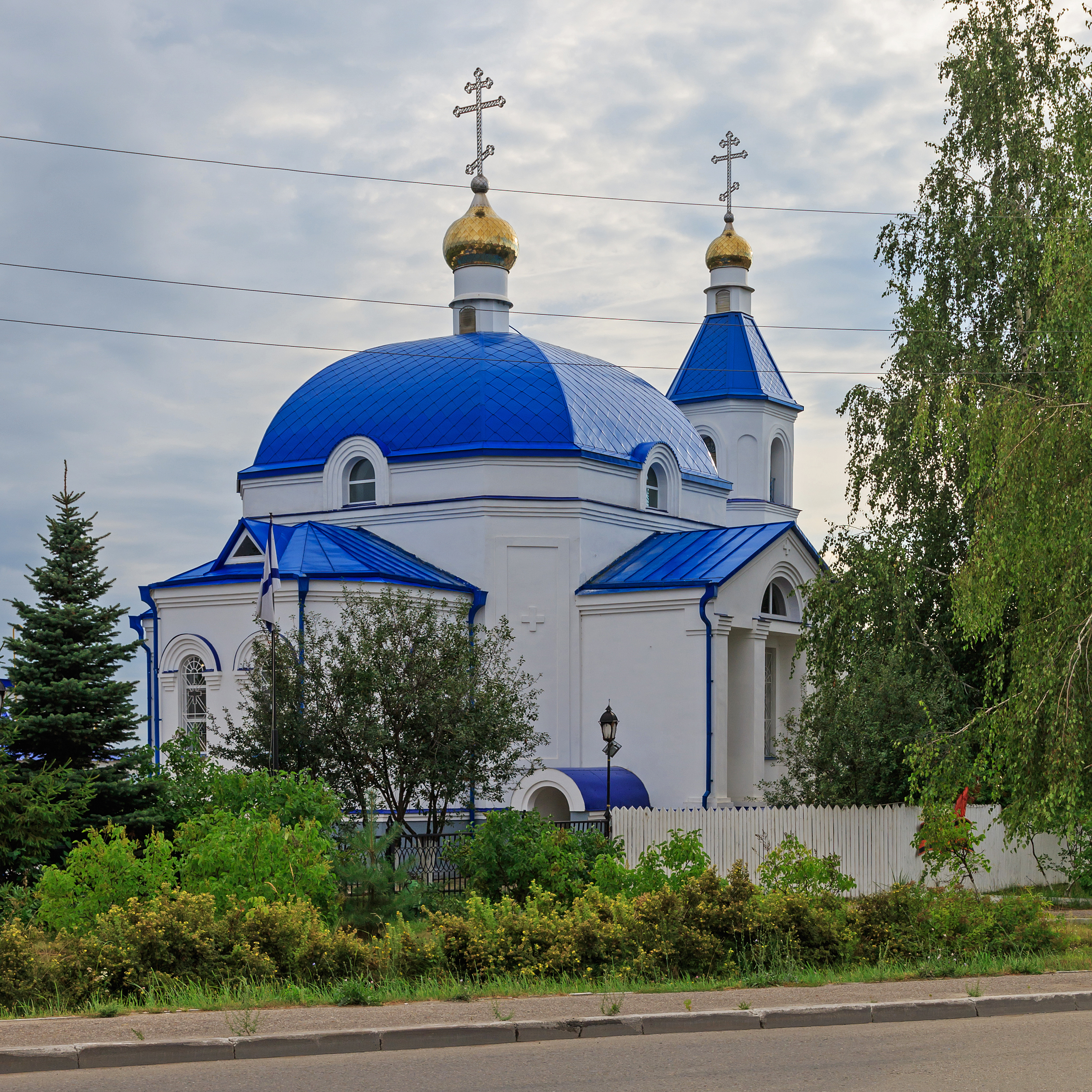 Saint Andrew Church in Zelenodolsk, Tatarstan, Russia